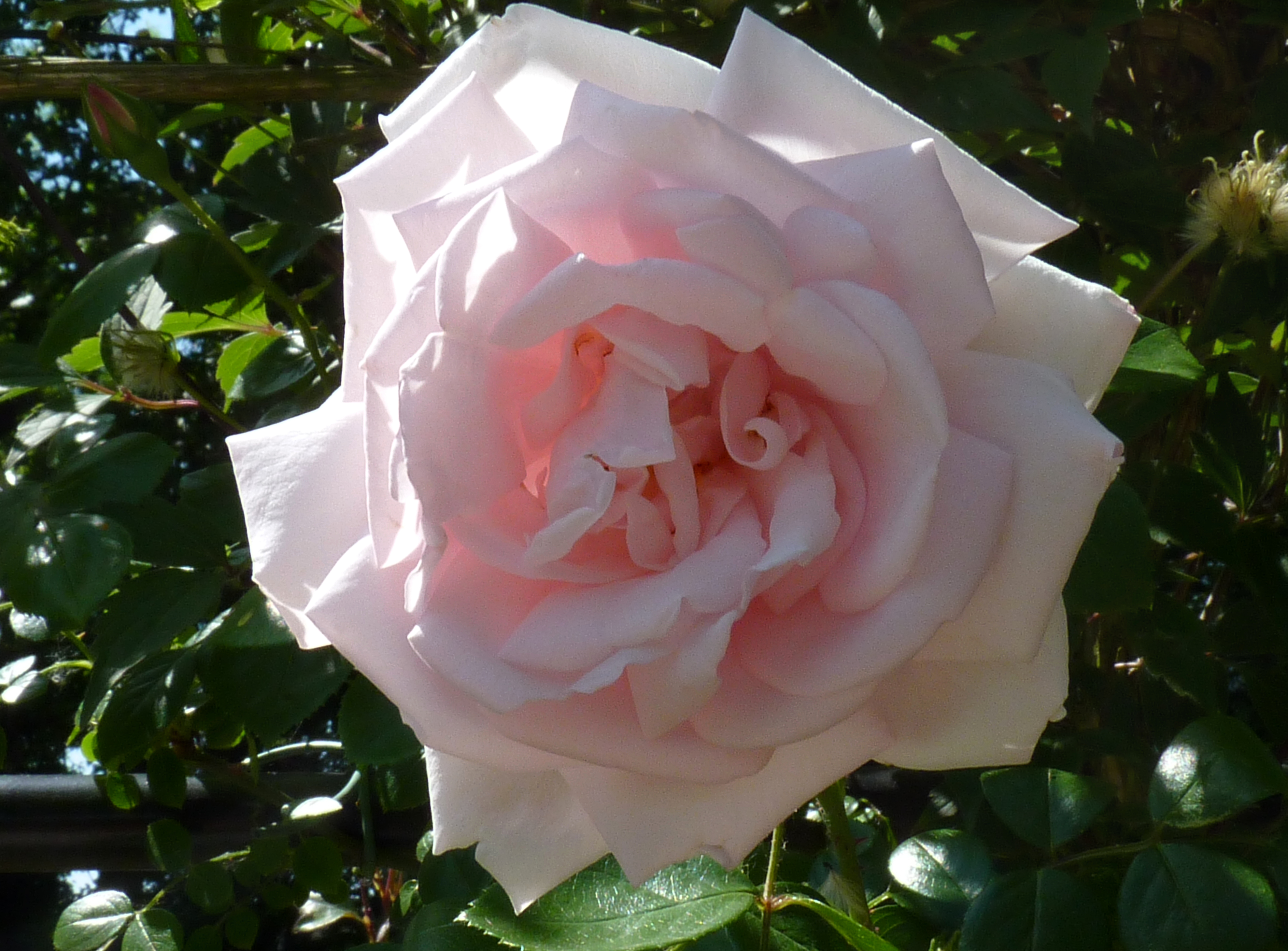 Rosa 'New Dawn' (Somerset Rose Nursery, 1930), in the international rose garden of Kortrijk, Belgium.